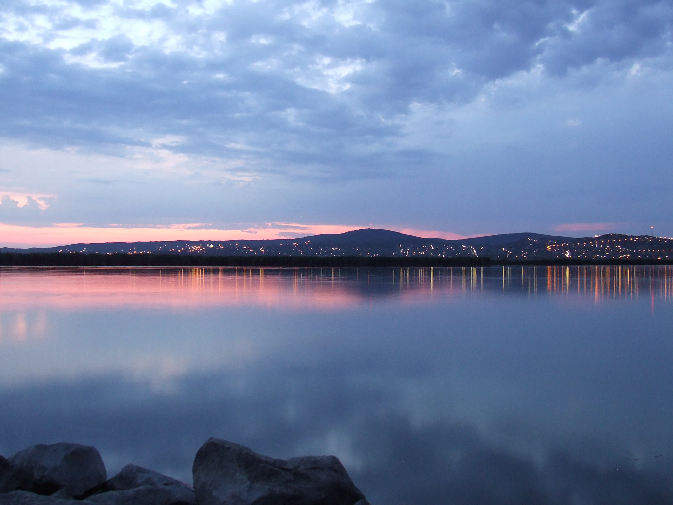 Sunset over the Lake Velence (Hungary)